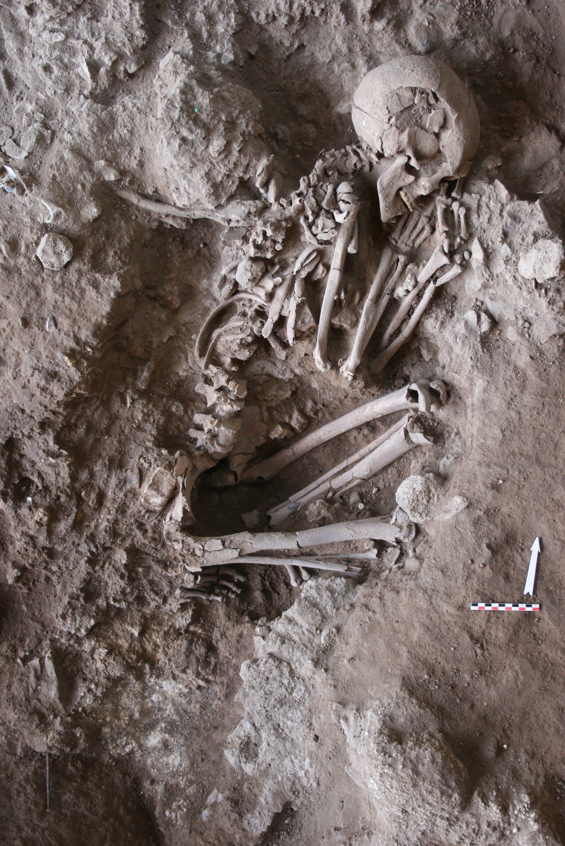 Human burial (Homo 18) in Raqefet Cave (Mount Carmel, Israel), Natufian Culture